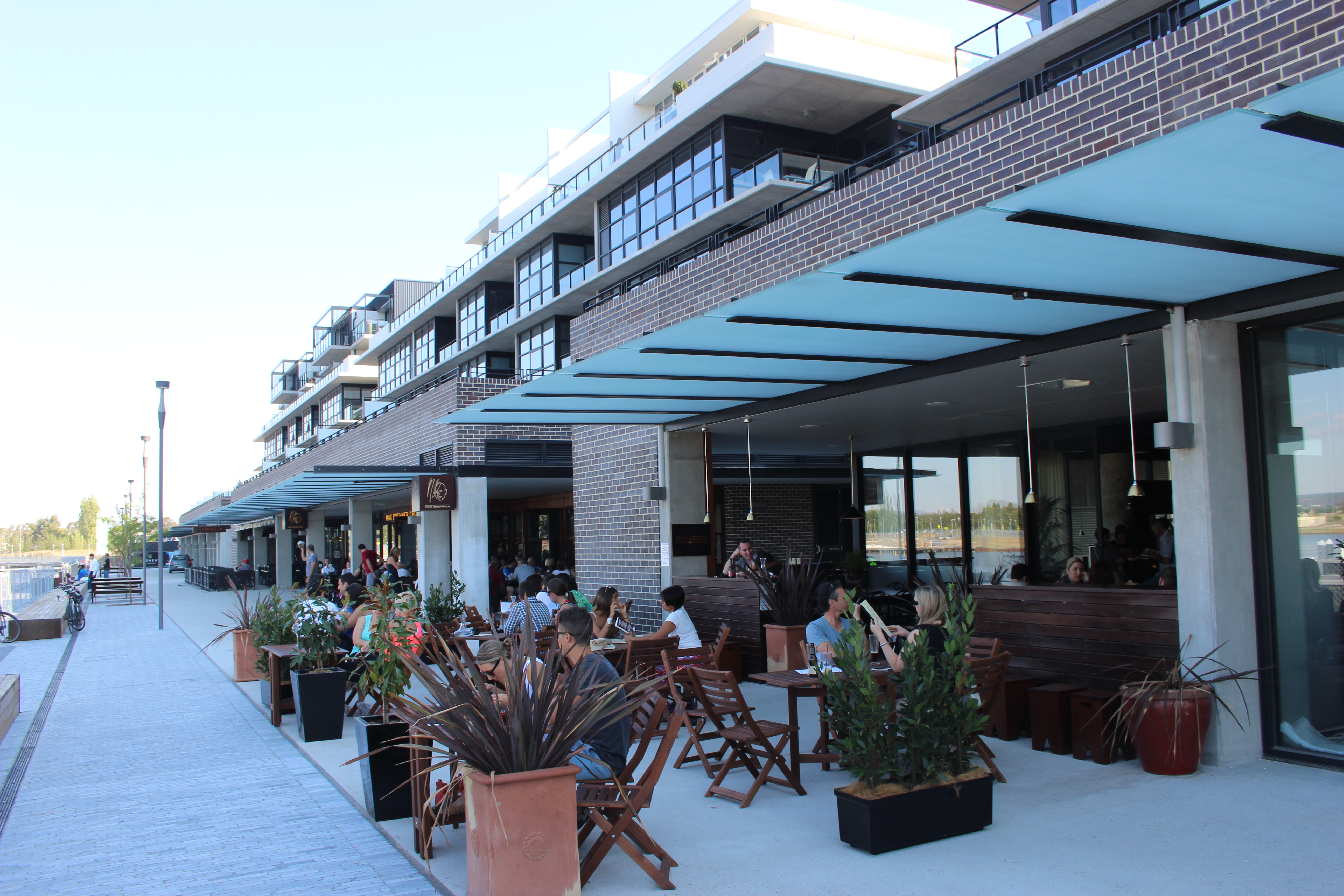 Kingston Foreshores